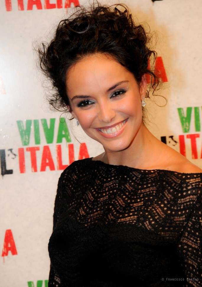 Elena Cucci, preview of the movie Viva l'Italia directed by Massimiliano Bruno (2012)